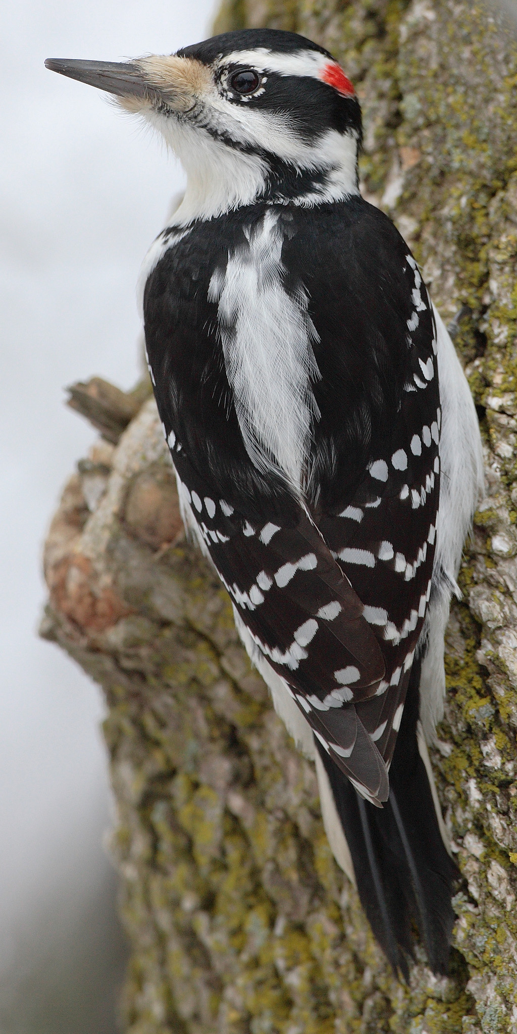 Picoides villosus, Hairy Woodpecker -- Whitby, Ontario, Canada -- 2006 January, The red on the back of the head identifies this as a male.